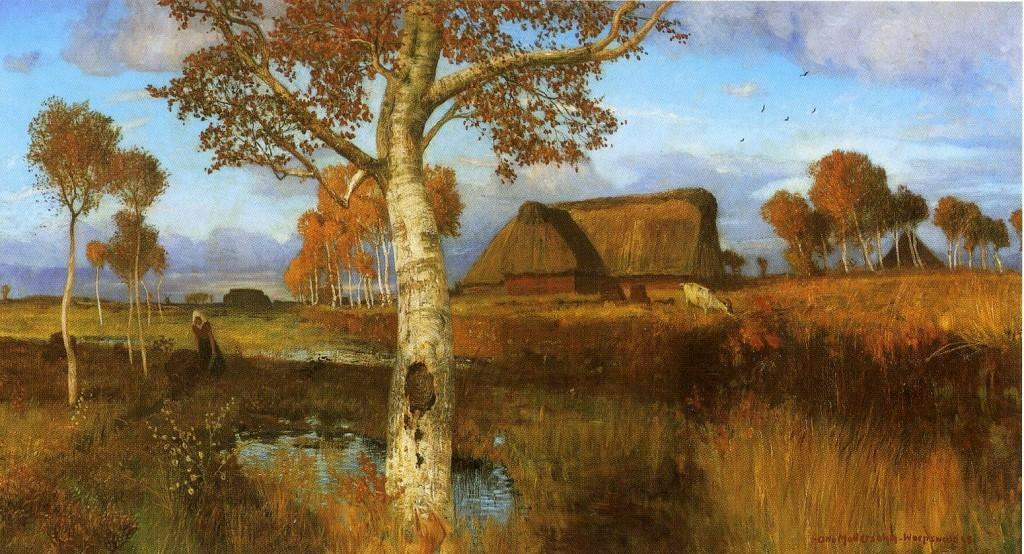 Herbst im Moor Kunsthalle Bremen Native nameKunsthalle BremenParent institutionQ907935LocationBremenCoordinates53° 04′ 22″ N, 8° 48′ 49″ E Established1849Web page control : Q693591 VIAF: 152439691 ISNI: 0000 0001 2184 5983 ULAN: 500305639 LCCN: n80046907 GND: 2016790-8 WorldCat